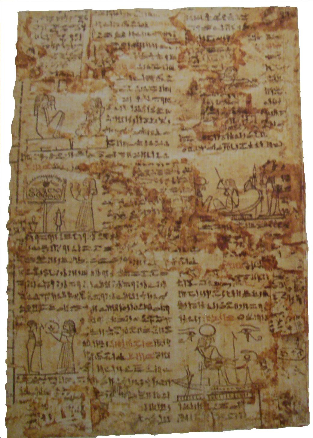 Egyptian papyrus of unknown authorship. This papyrus fragment is known as Joseph Smith Papyrus IV, and is thought by some to be one source of the untranslated Book of Joseph. See also Book of Abraham.